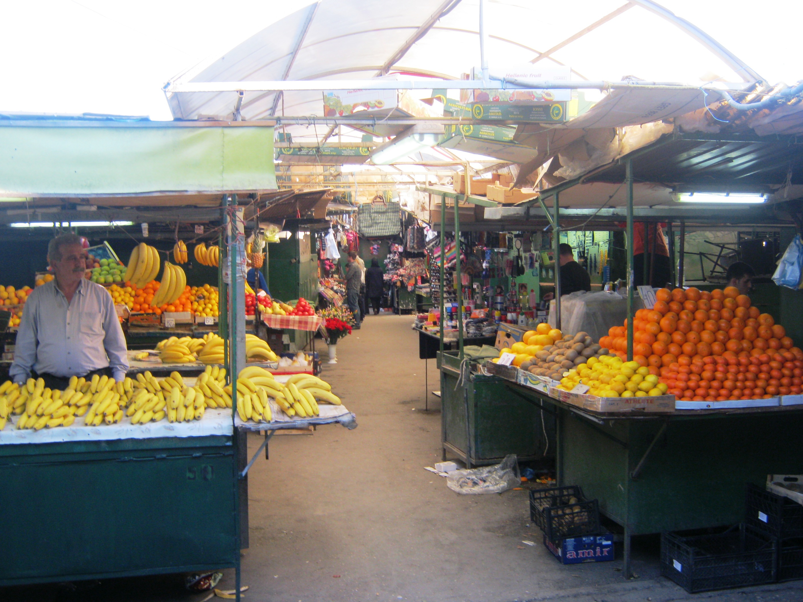 Bit pazar, the largest marketplace in Skopje.